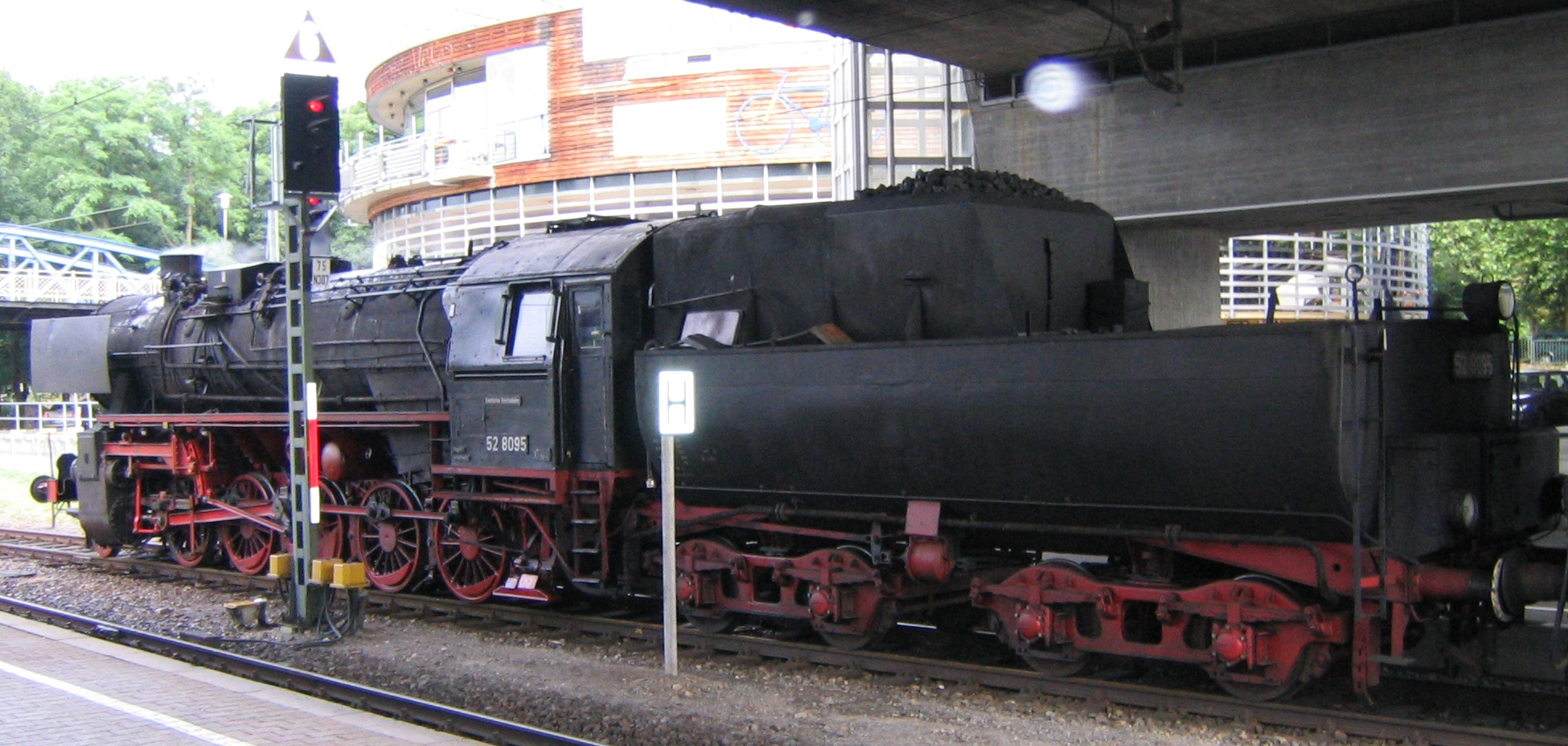 German steam locomotive DR 52 8095.